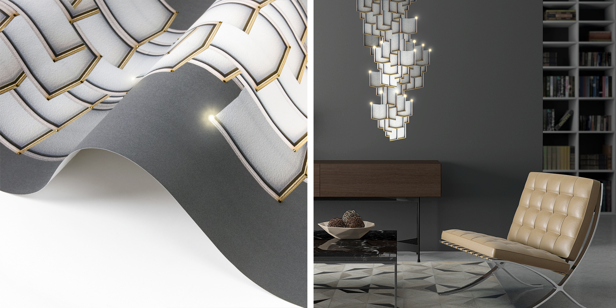 Digitally printed LED wallpaper with crystals, Lattice Systems, creating ambient light